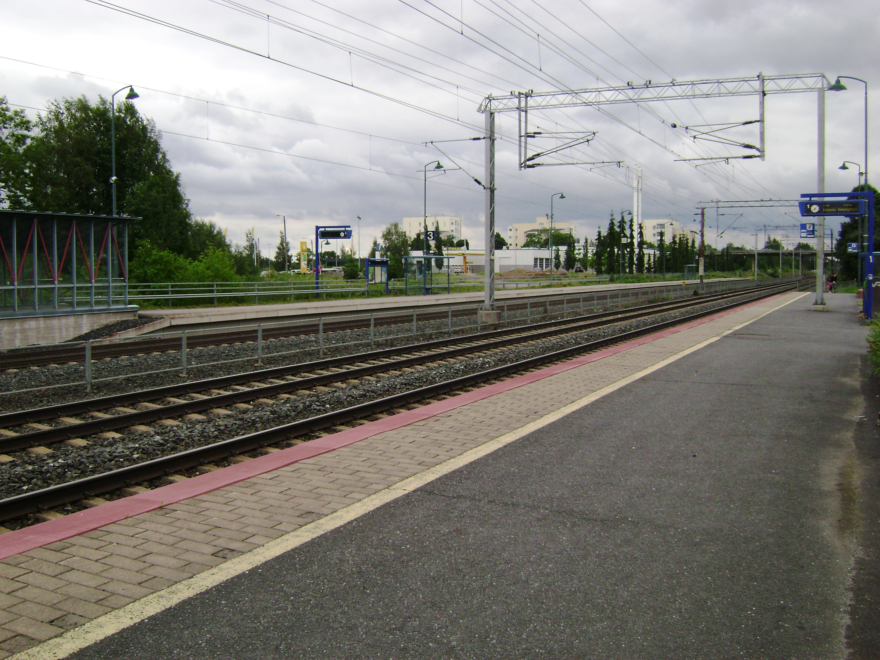 Lempäälä railway station.